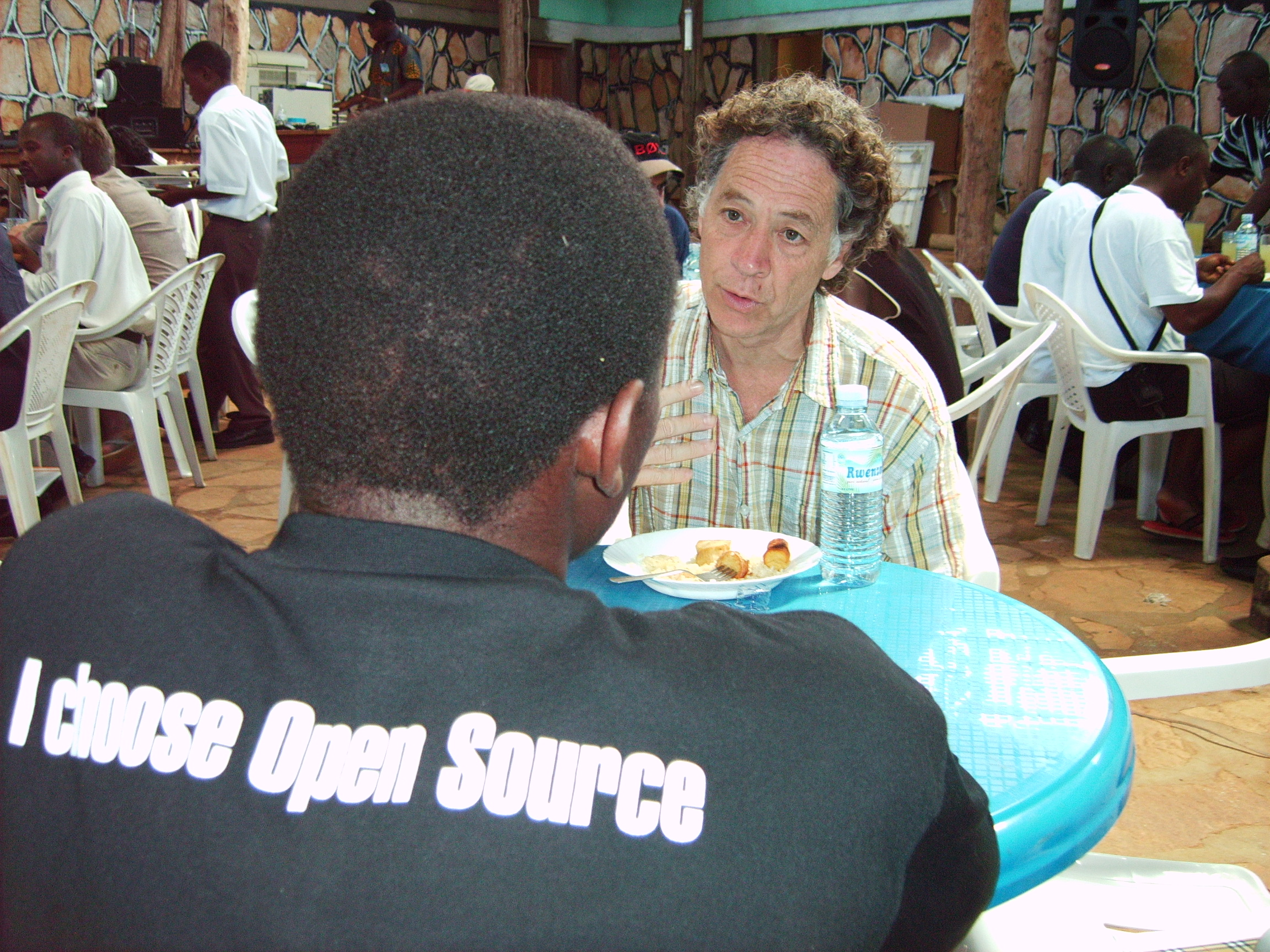 Dinner at Africa Source 2, Kalangala, Uganda.